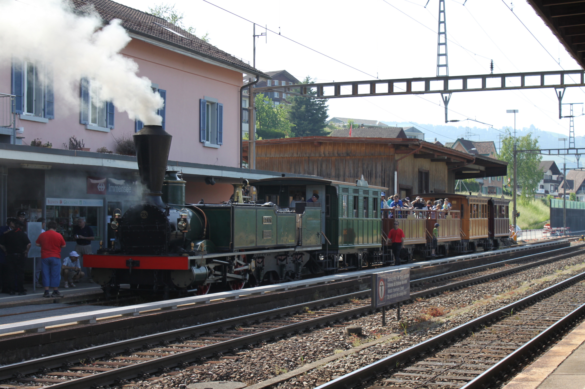 SBB CFF FFS Ec 2/5 28 at Immensee train station.